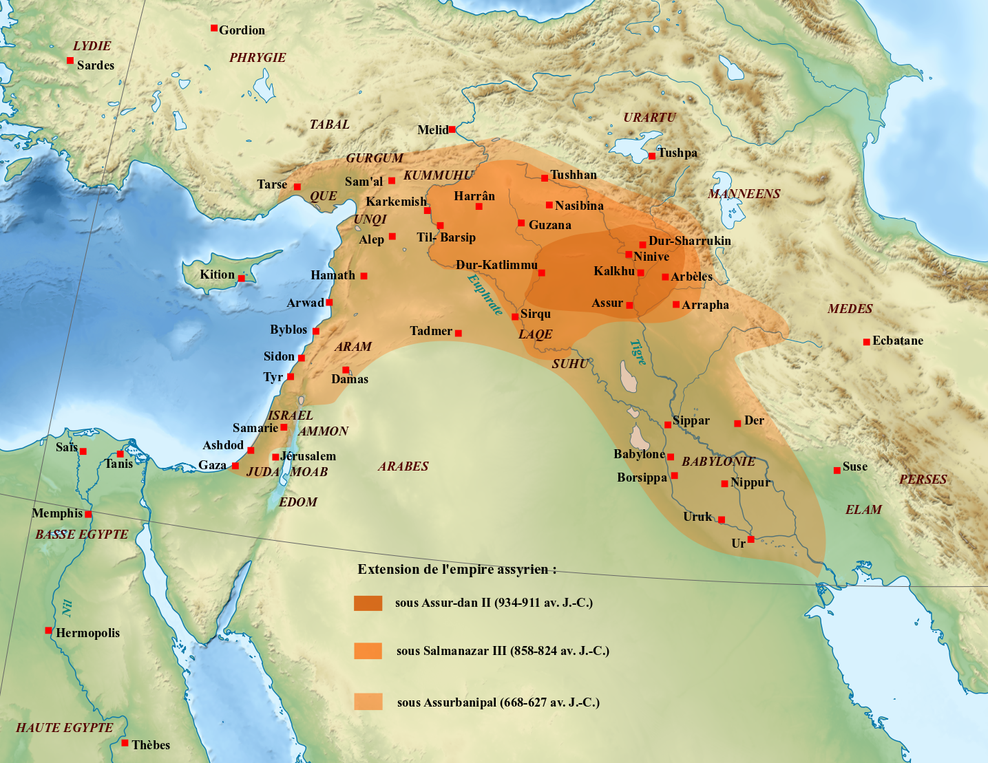 Map showing different stage of the extension of the Neo-Assyrian Empire (934-911 BC).